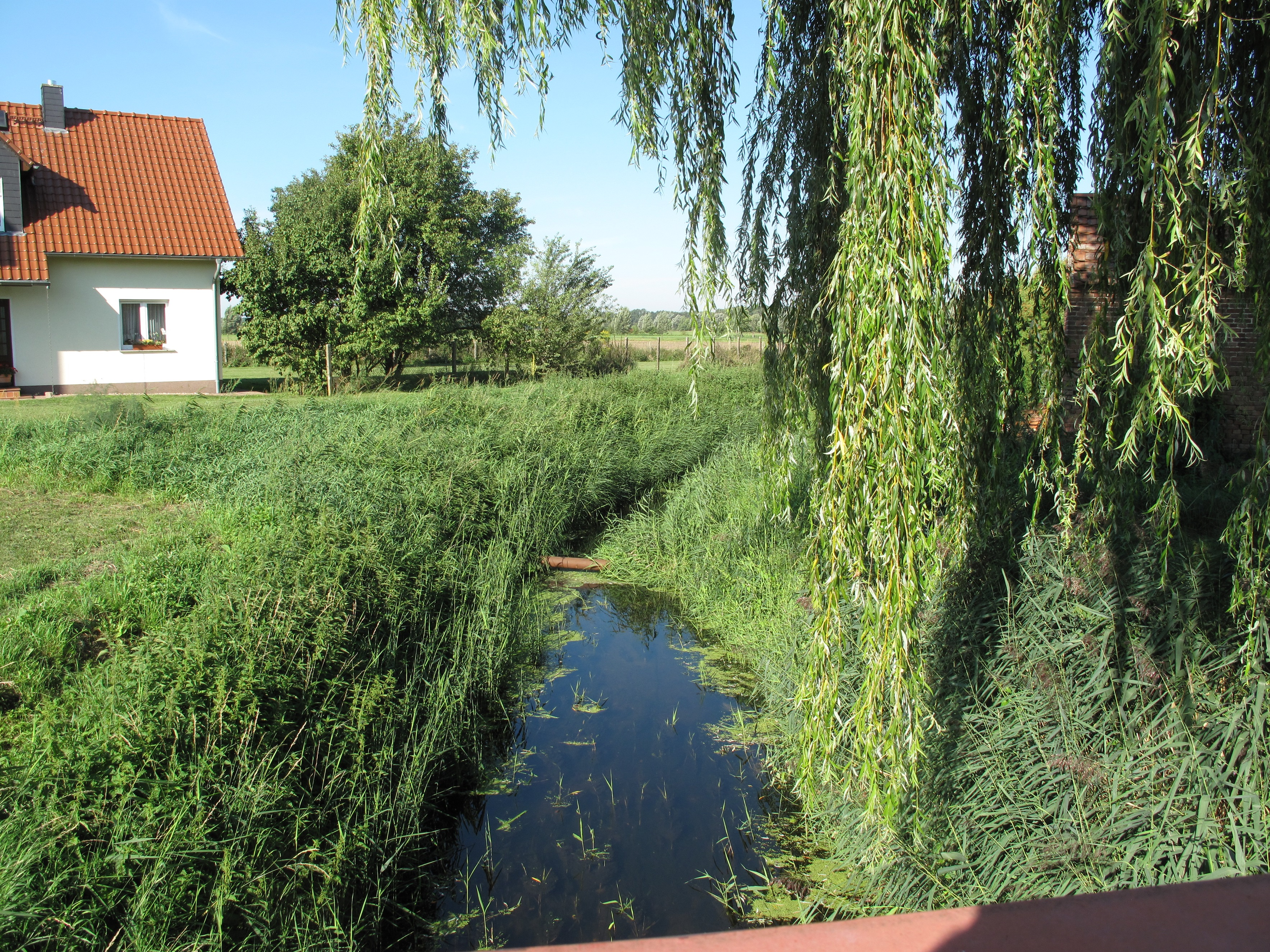 Rieploser Fließ in Rieplos. The 3,88 kilometres long stream connects the Lebbiner See with the Stahnsdorfer See (lakes). Rieplos is a part of the town Storkow, District Oder-Spree, Brandenburg, Germany. The village and the stream are situated in the Dahme-Heideseen Nature Park.